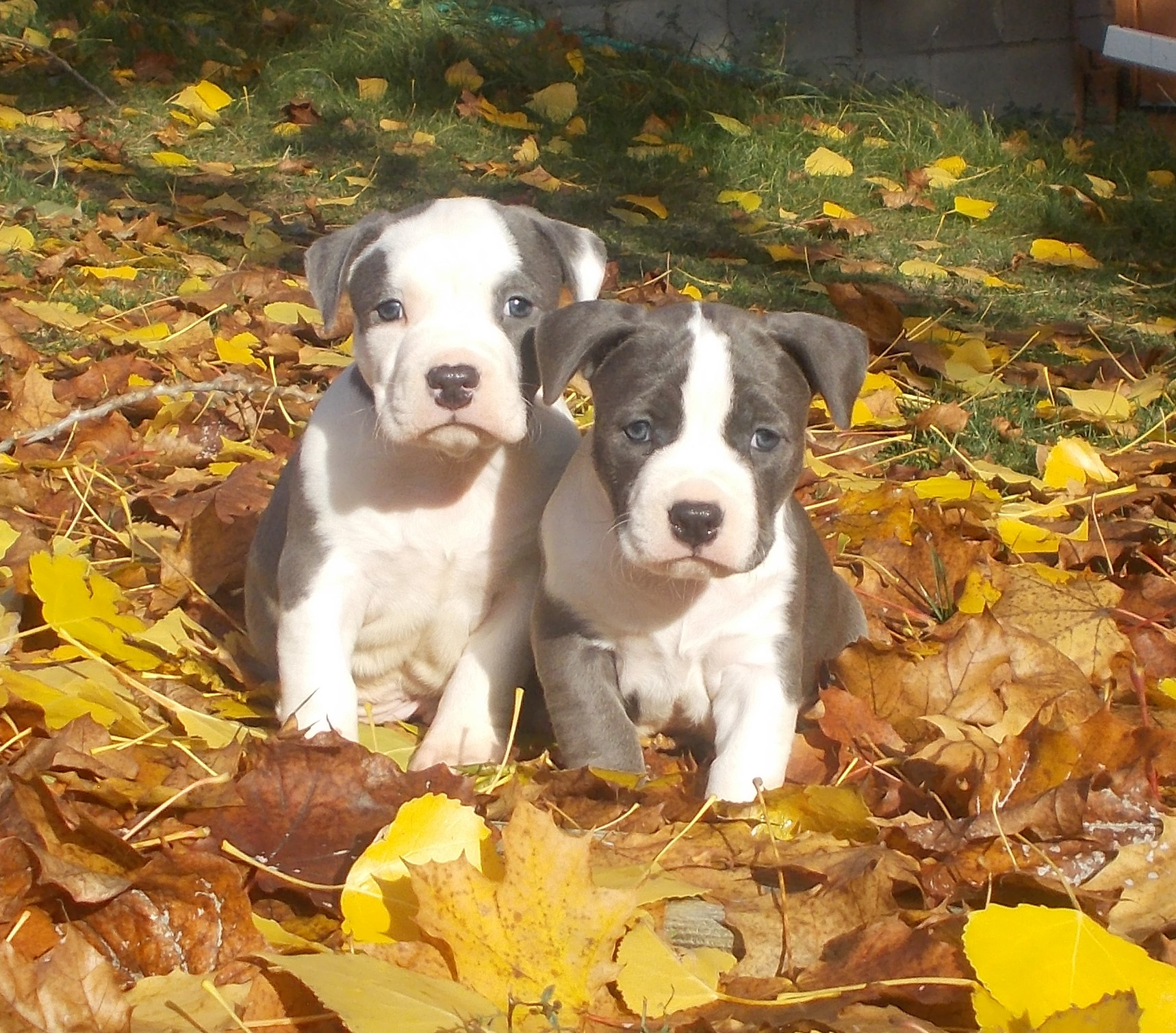 Blue AmStaff Puppies